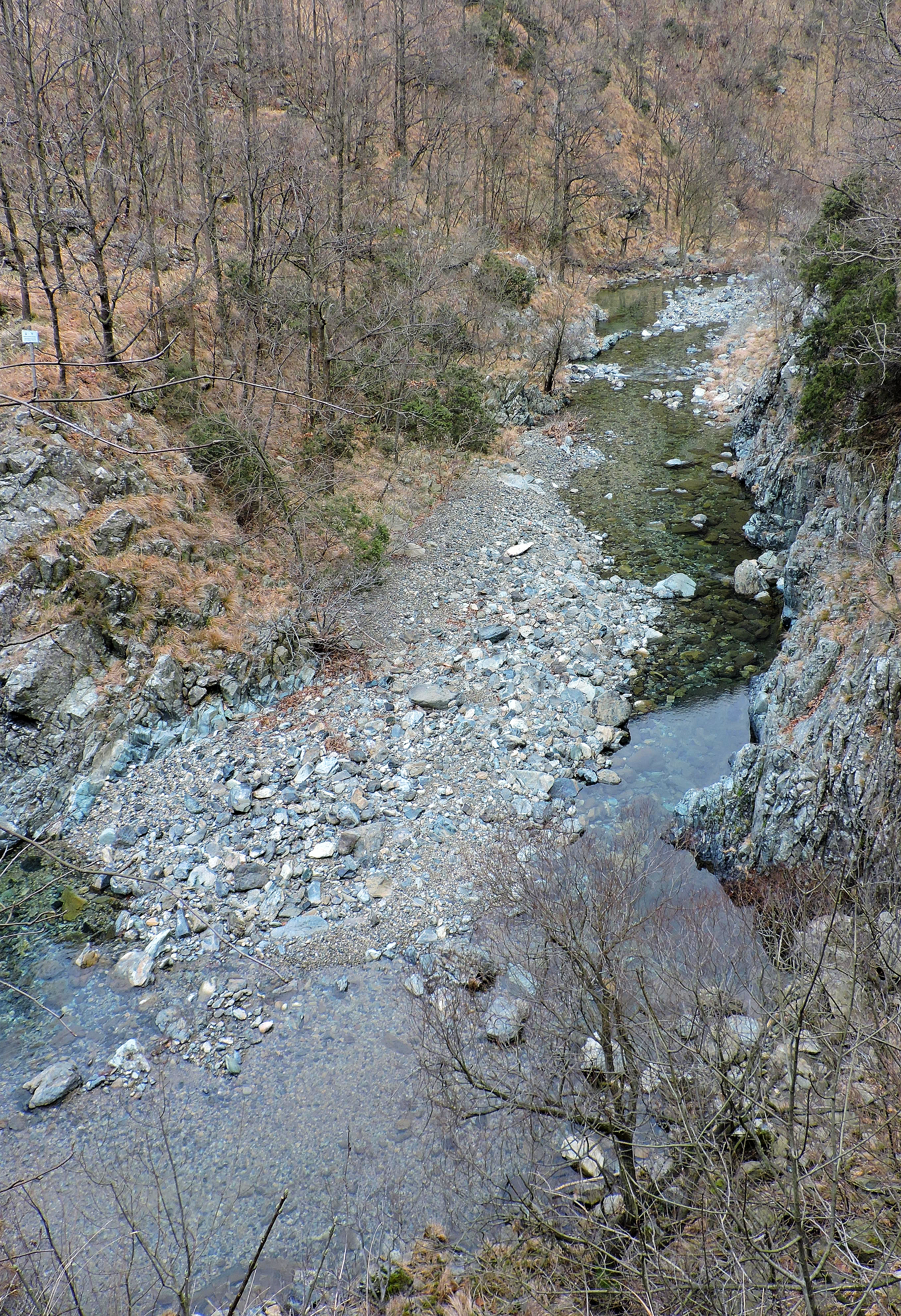 Rio Masone (Liguria, IT) upstream from Cascate del Serpente